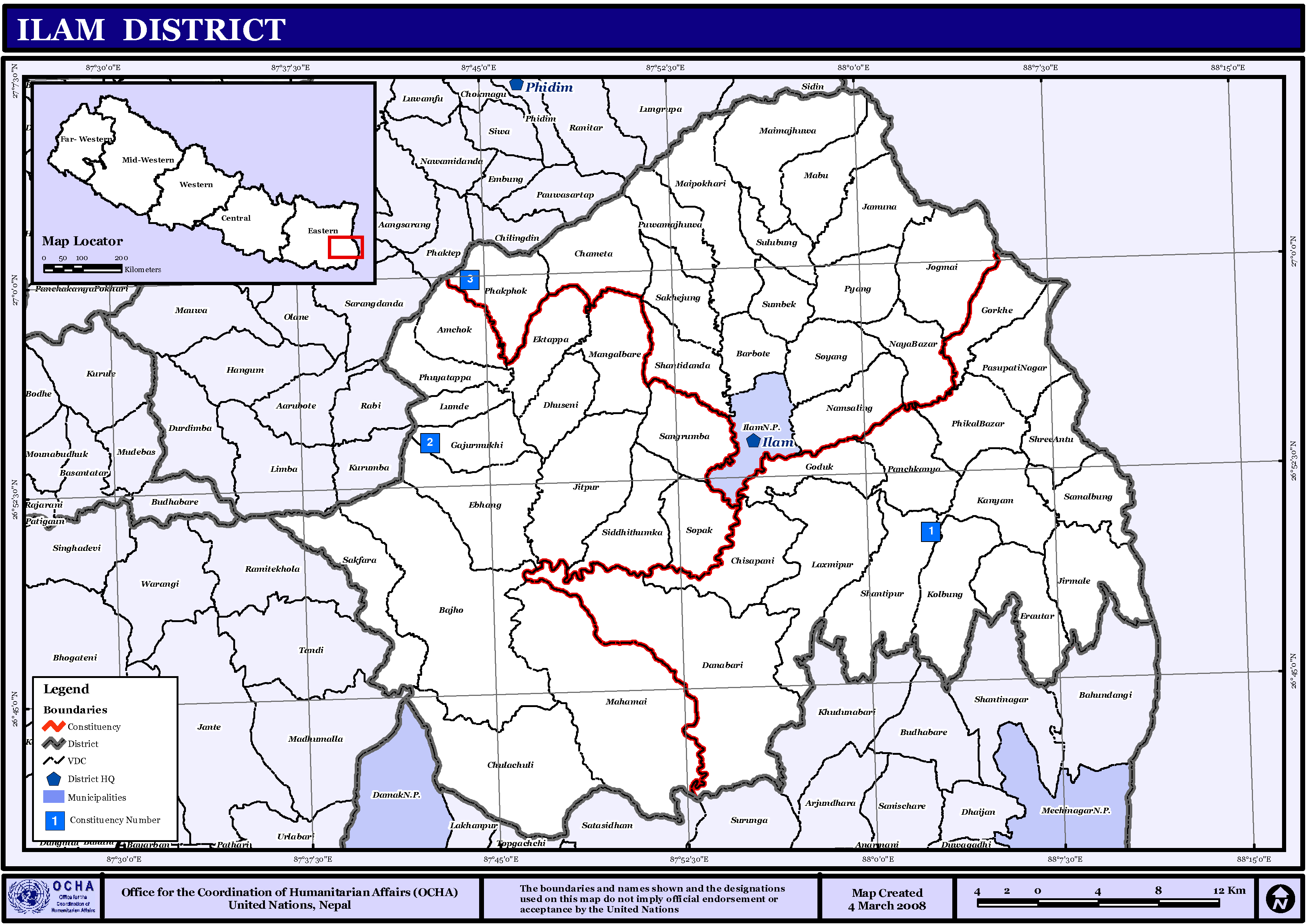 Map displaying Village Development Committees in Ilam District, Nepal